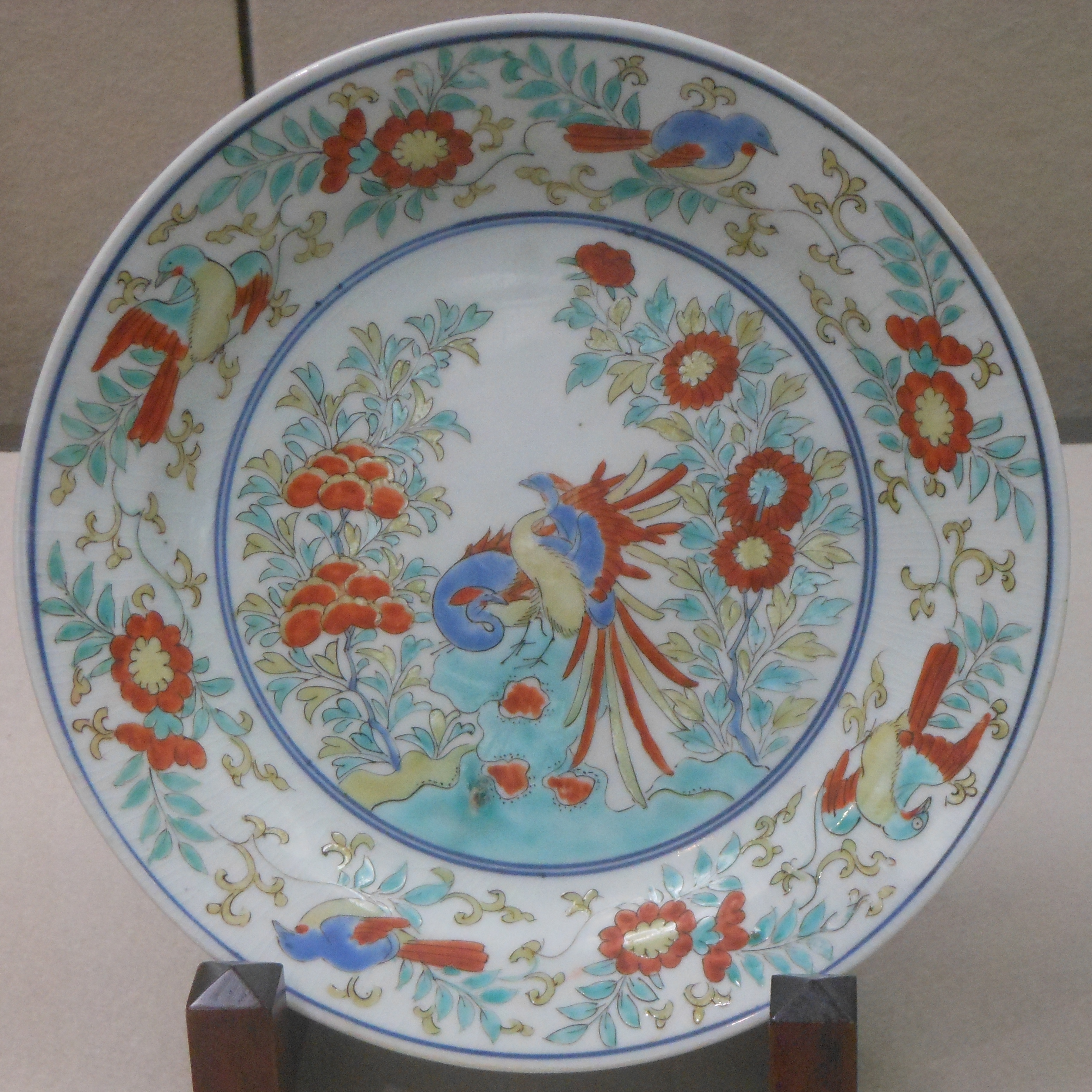 Name:Iroe-Kachomon-Sara (Dish with flower and bird design, overglaze polychrome enamels.) Collection No.:0346-58 Era:1670-1690s Made in:pottery of Arita, Hizen Collected, displayed by:Kyushu Ceramic Museum